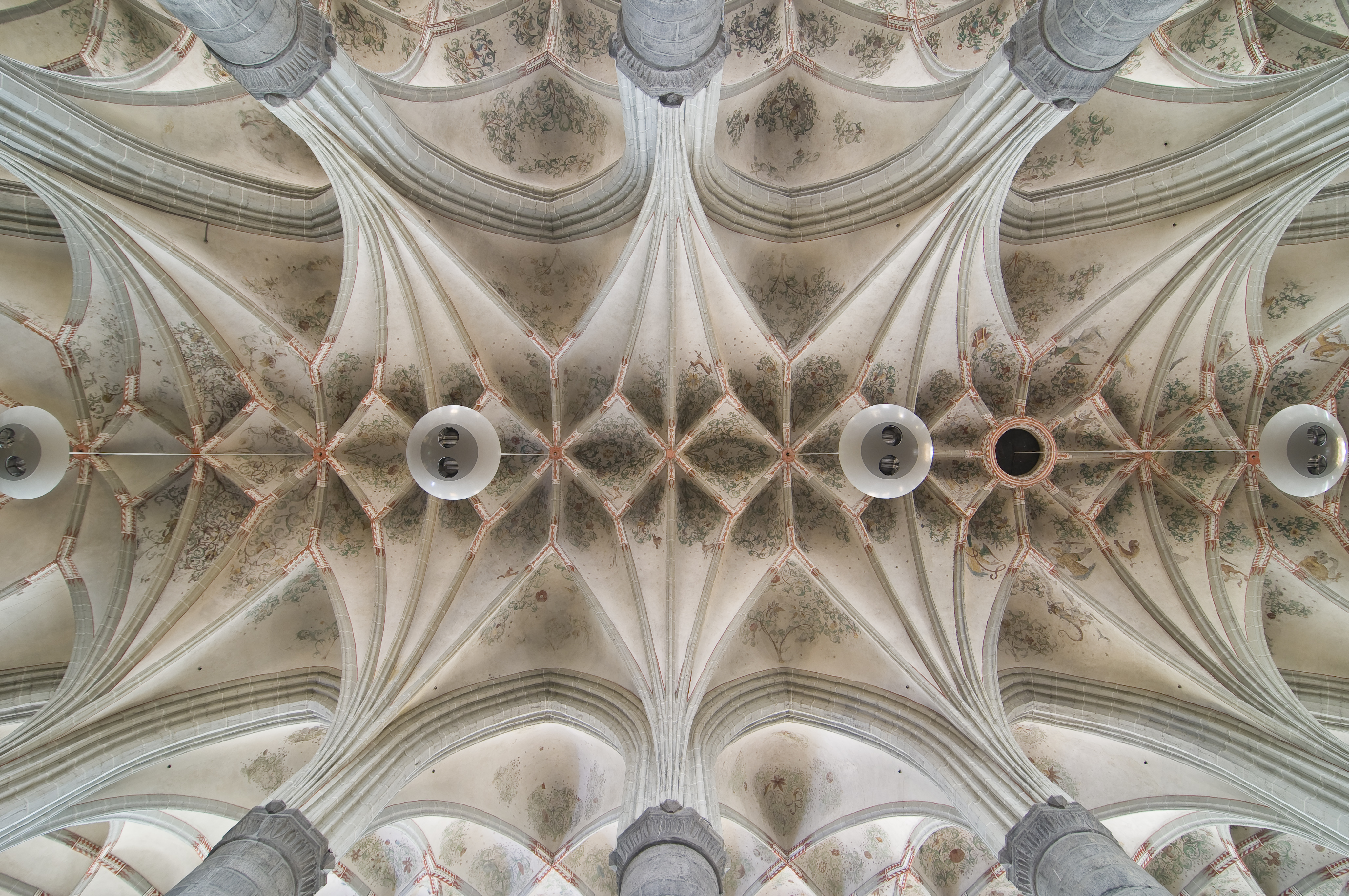 Vault of the Sint-Martinuskerk in Weert the Netherlands